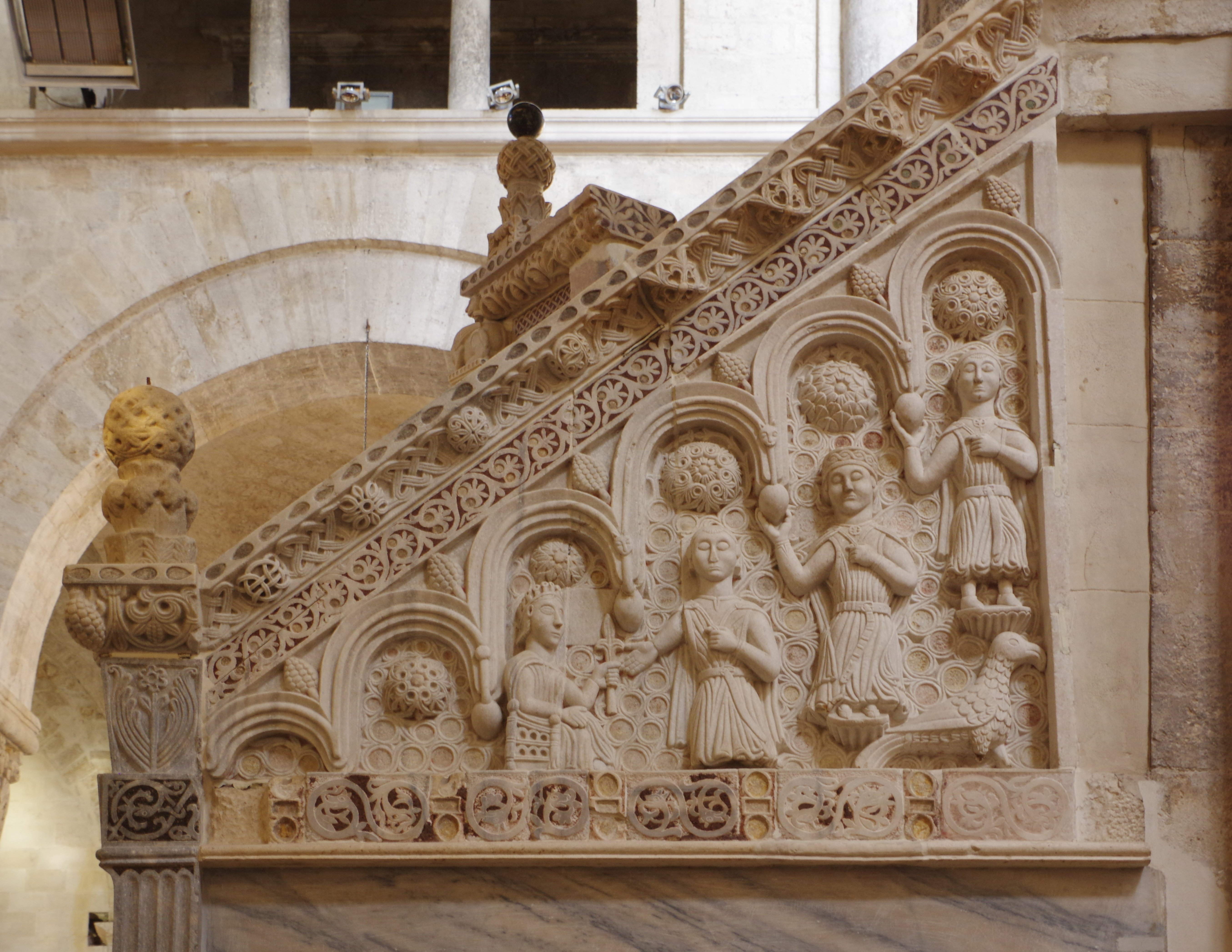 Italy, Bitonto, San Valentino cathedral